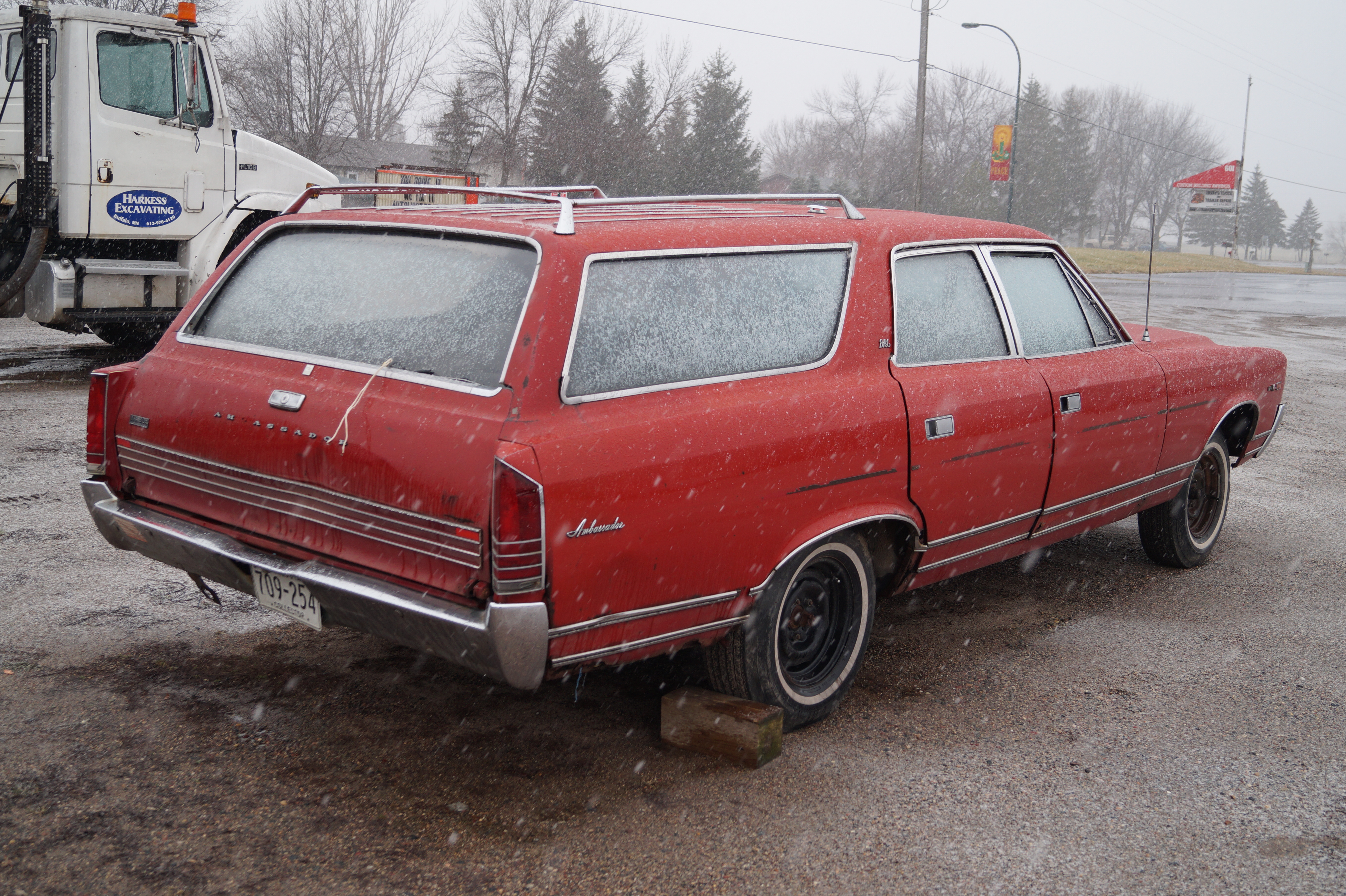 Click here for more car pictures at my Flickr site. I traveled to Walser Chrysler Jeep Dodge Ram, in Hopkins MN, to get the recalled air bag repaired on my Dodge Magnum. Despite the messy conditions, i brought my camera. I was surprised to find some interesting cars out in the slop. I missed getting a picture of a 1971 Ford LTD Convertible though. Traffic was heavy, conditions were messy and there was not a safe place to park.